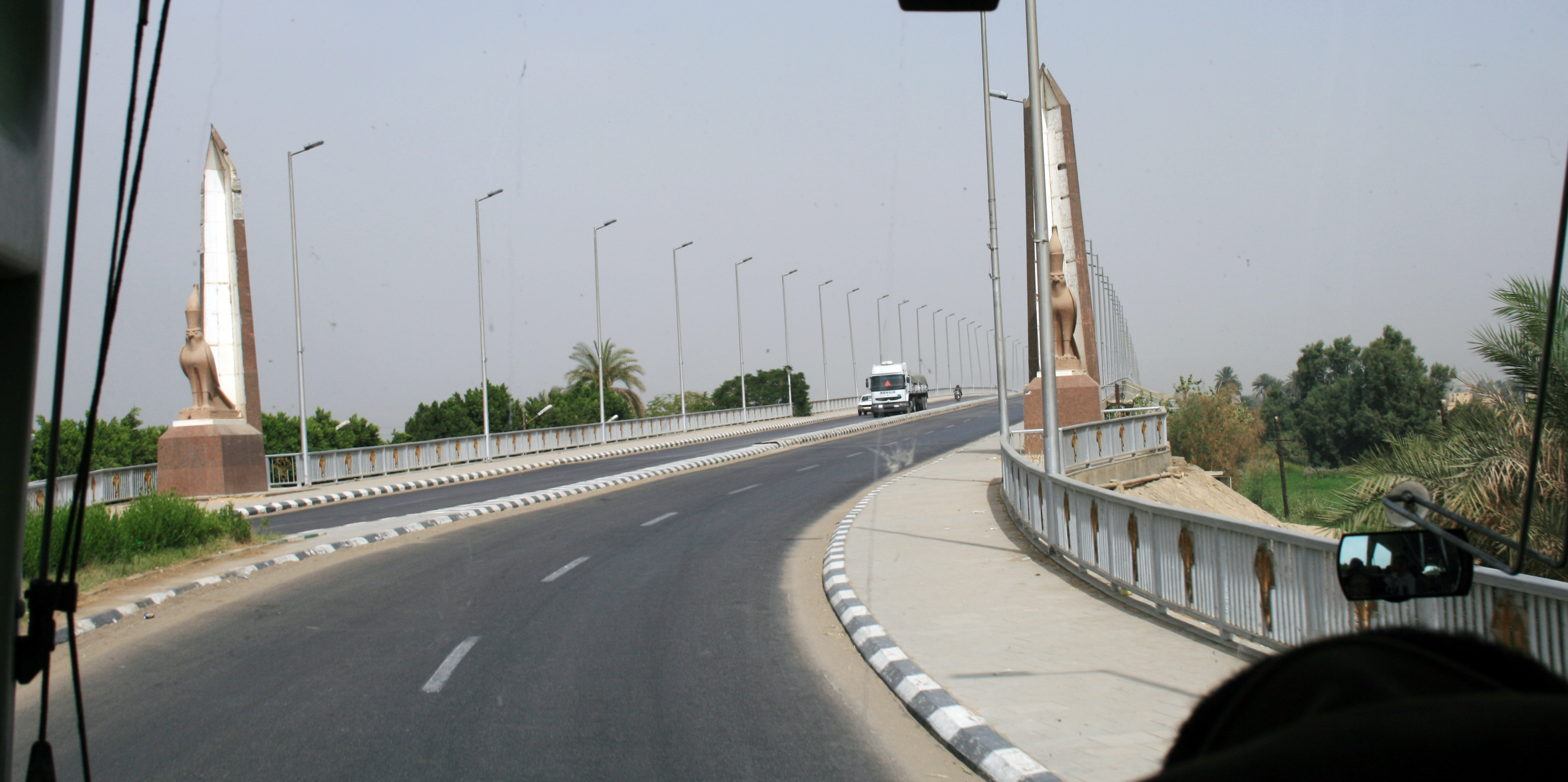 On the road from Hurghada to Luxor by bus,Egypt Česky: Cesta autobusem z Hurghady do Luxoru, Egypt